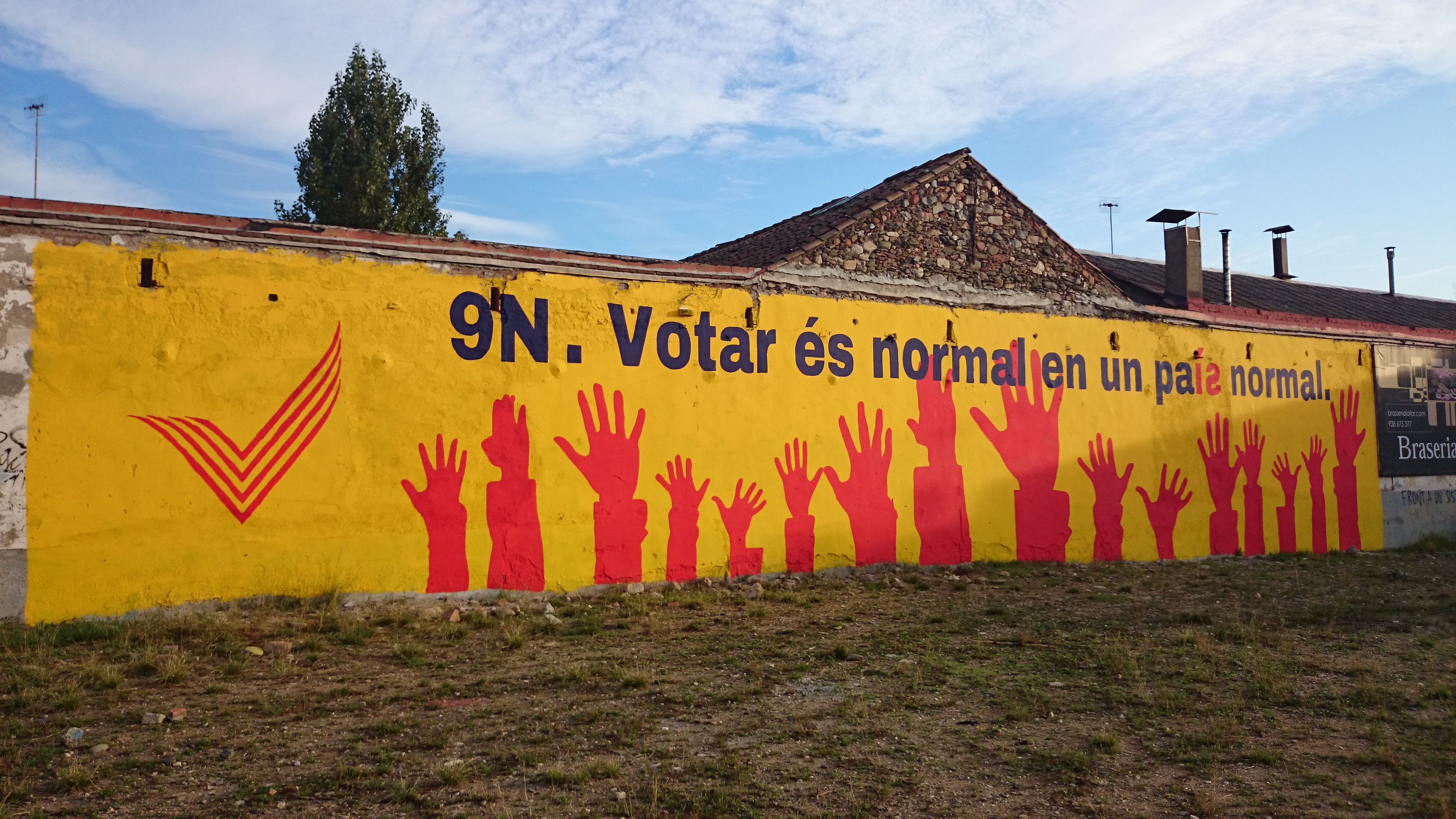 Mural in Sant Celoni (Vallès Oriental) defending the right to vote in a referendum to decide whether the independence or not of Catalonia.